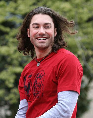 Brett Asa "Ace" Young (born November 15, 1980) is an American singer-songwriter and actor.